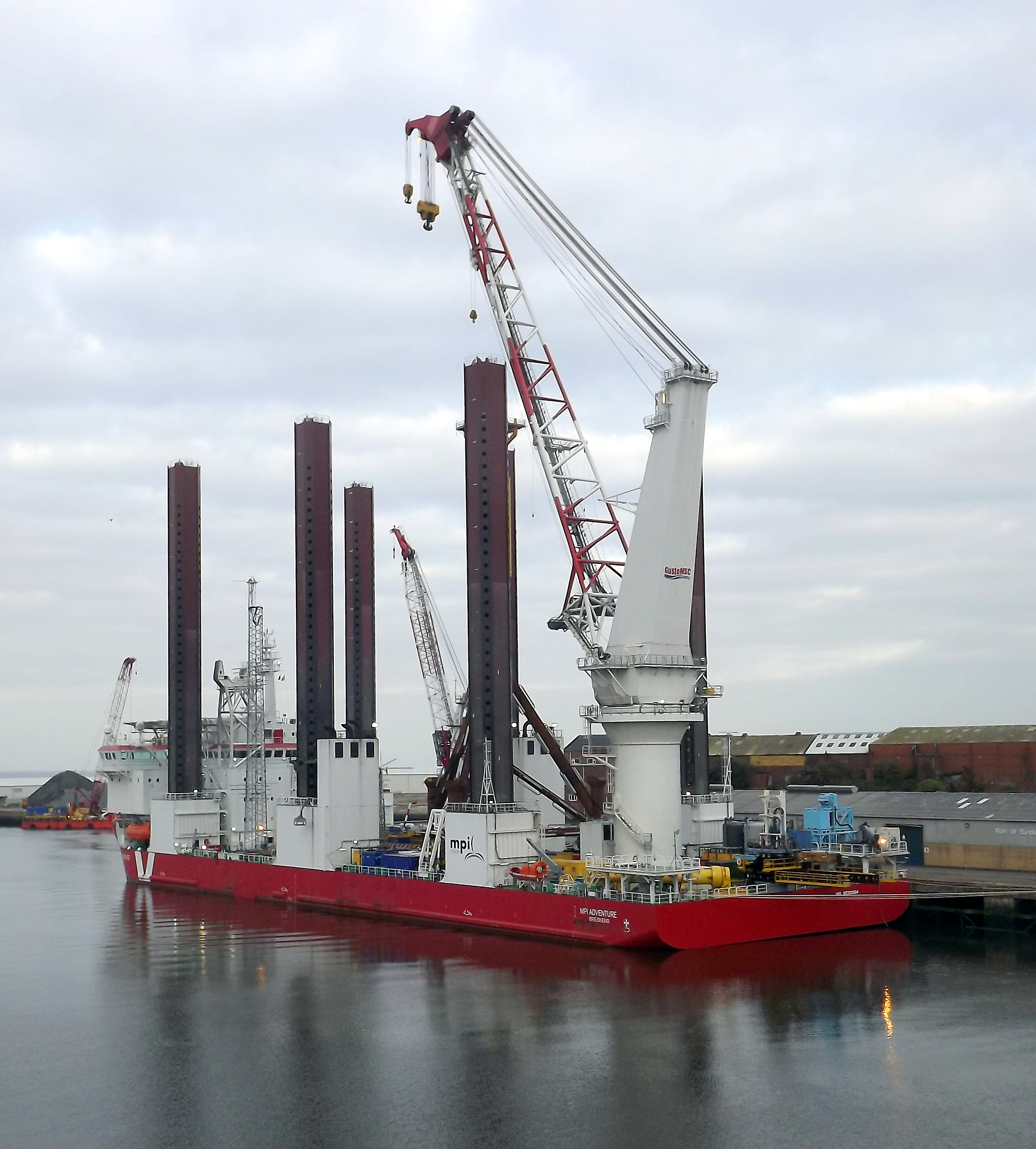 Turbine Installation Vessel MPI Adventure on lay by at Corporation Quay, River Wear, Sunderland, 10th October 2012.